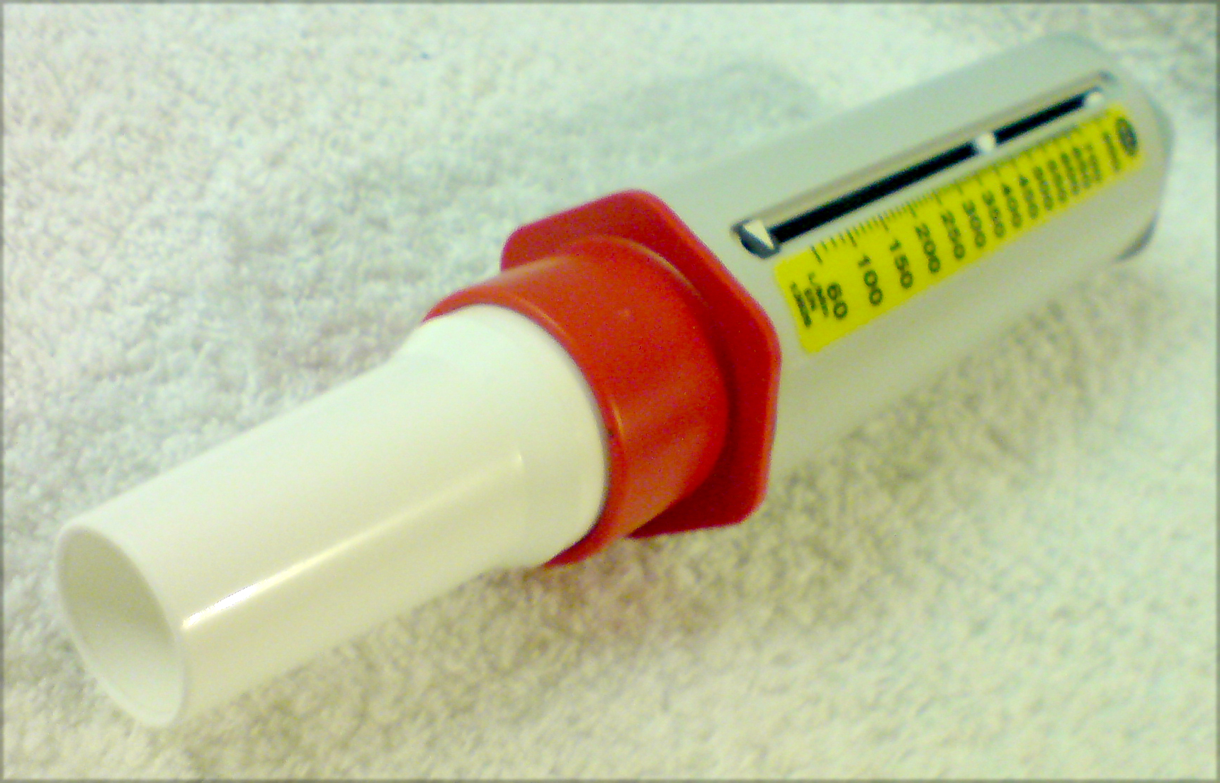 Photograph showıng a Peak Flow Meter as ıssued by an NHS doctor ın the UK. Author = self